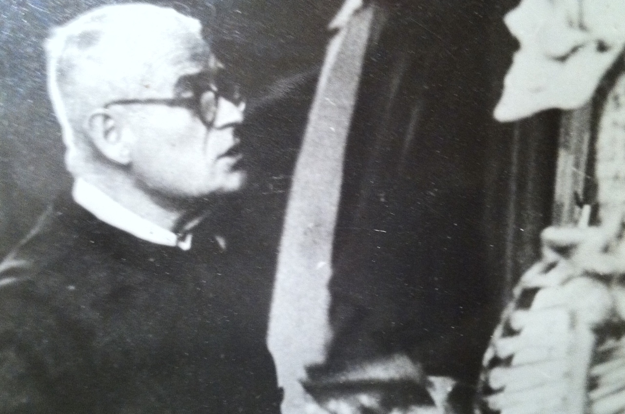 Prof. Hermann Stieve lecturing Anatomy